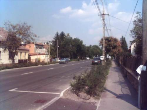 Central street Budaors